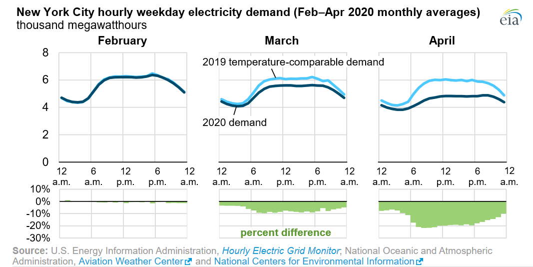 Actions to mitigate the 2019 novel coronavirus disease (COVID-19) caused daily weekday electricity demand in New York City to decrease by 16% in April 2020 compared with expected demand, after accounting for seasonal temperature changes. However, decreases in the city’s electricity demand did not occurr uniformly across the day. The largest differences between actual and expected demand were during daytime weekday hours when many schools and businesses that normally would have been open were closed. May 22, 2020